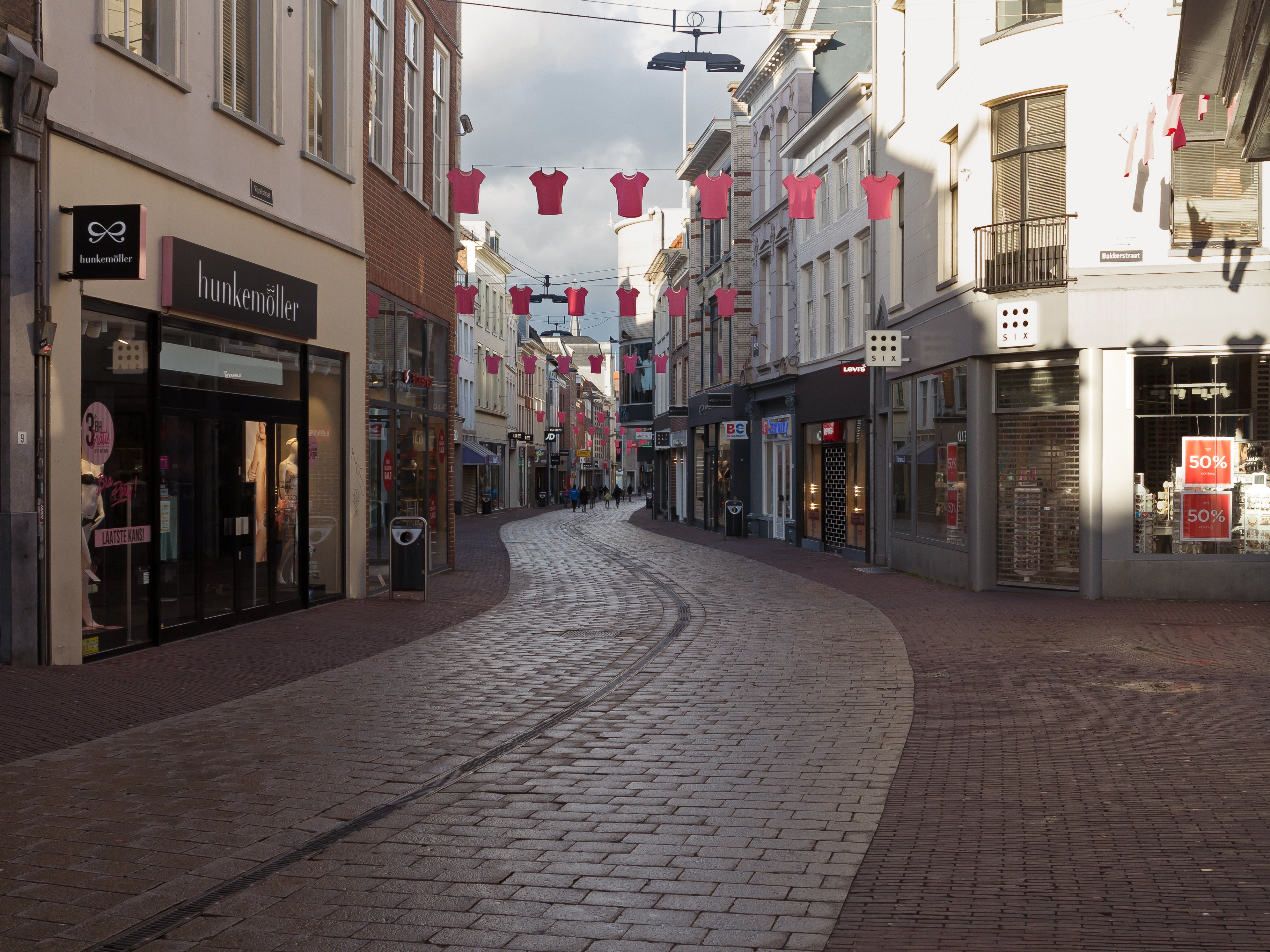 Arnhem, street view de Vijzelstraat for Giro d'Italia